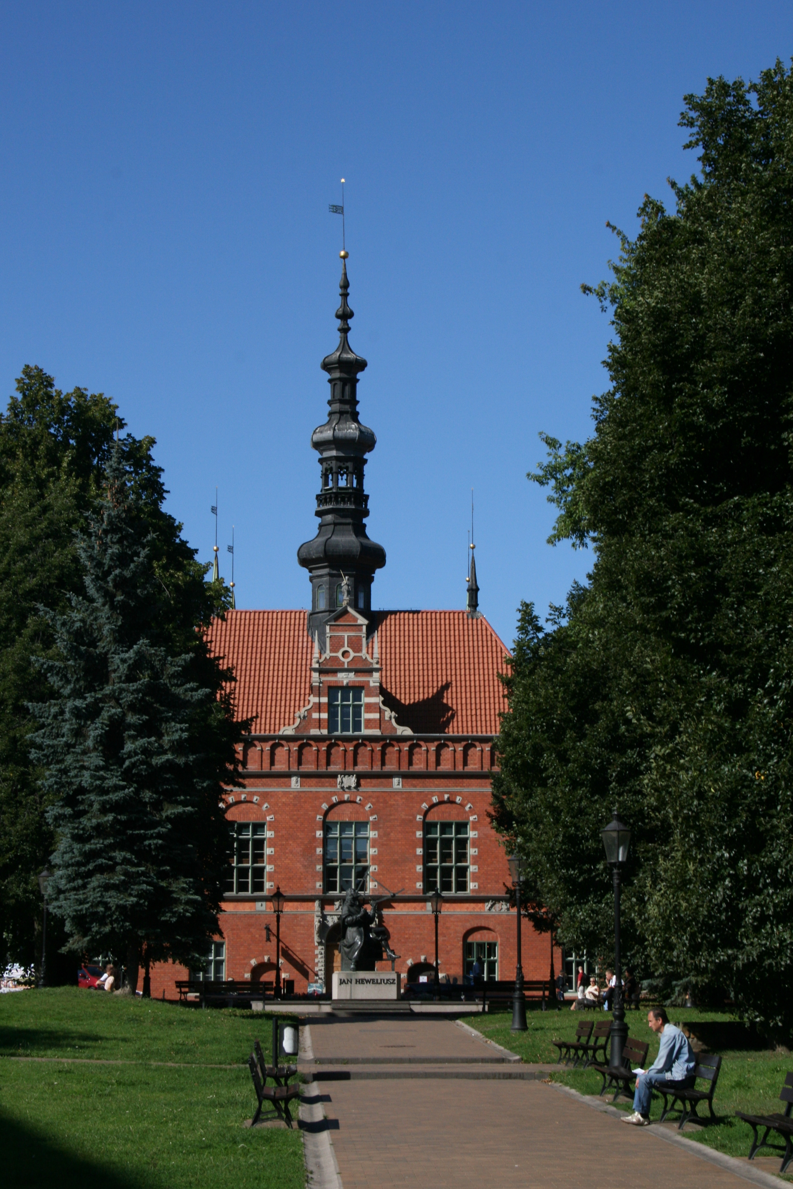 Old townhall in Gdańsk with the Hevelius-monument